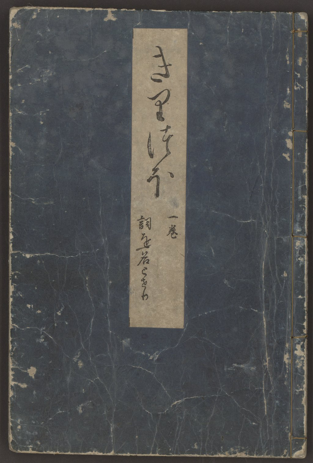 Genji monogatari (Tale of Genji) is often considered the first great novel in world literature. The author of the work, Murasaki Shibuku, was born around 978 and spent most of her life at or near the imperial court in Kyoto. After a brief marriage to an older man, she entered the service of Empress Akiko (or Shōshi) around 1005 as a lady-in-waiting. The novel consists of 54 books or chapters that recount the life and romances of Prince Genji, the young, handsome, and talented son of an emperor. The novel is remarkable for its elegant style, complex portrayals of characters, and descriptions of human emotions. The author’s real name is unknown (she was known as Tō no Shikibu during her lifetime and came to be called Murasaki Shibuku after her death), as are her method of composition and the exact date when the work was written. This illustrated, woodblock print edition is from the collections of the Library of Congress. Produced in Kyoto in the mid-17th century, it is a complete and well-preserved set that includes the main text and six additional volumes: three volumes of commentary on key words and phrases in the text (Meyasu), a genealogy (Keizu), a sequel to the work by a later author (Yamaji no tsuyu ), and an index (Hikiuta). Aristocracy (Social class); Heian period; Japanese literature; Manners and customs; Princes; Romances; The Tale of Genji